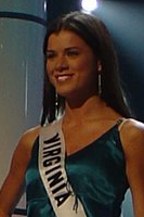 Kristi Lauren Glakas, 2004 during rehearsals for the Miss USA 2004 pageant.